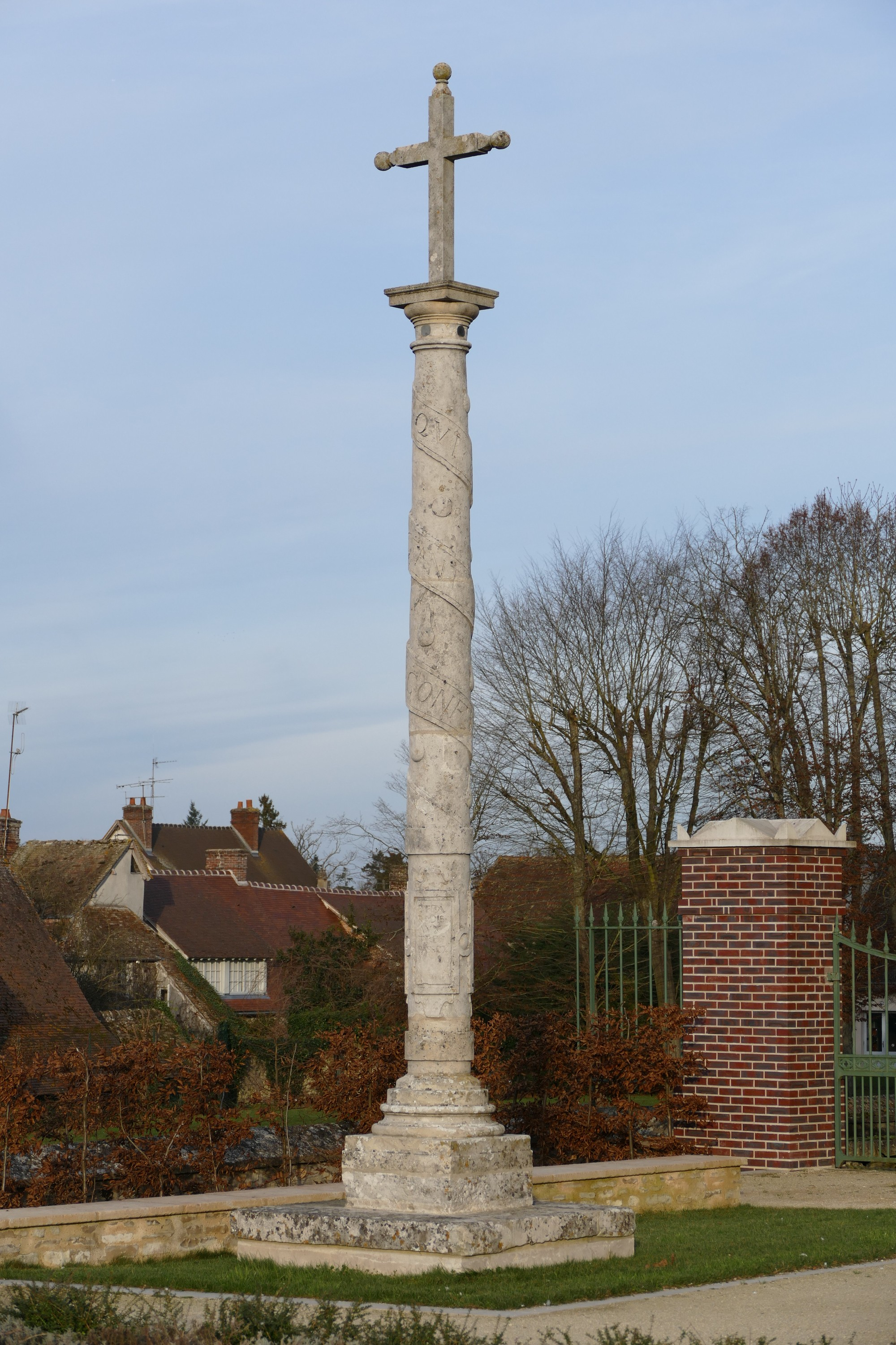 Monumental cross in Anet (Eure-et-Loir, Centre, France).